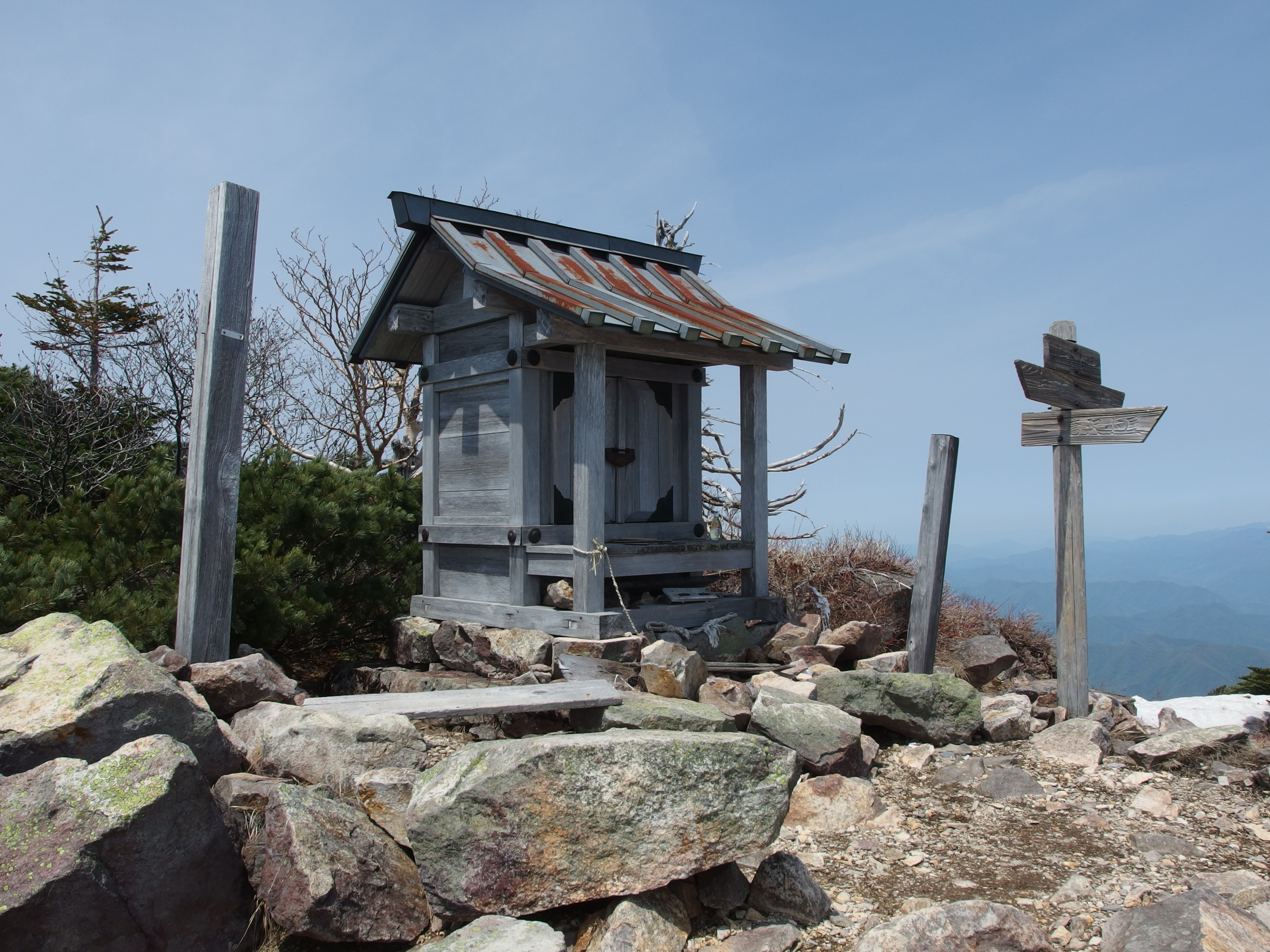 Japan: the inner Takinoo shrine at the summit of mount Nyōhō (Nikkō city, Tochigi prefecture).